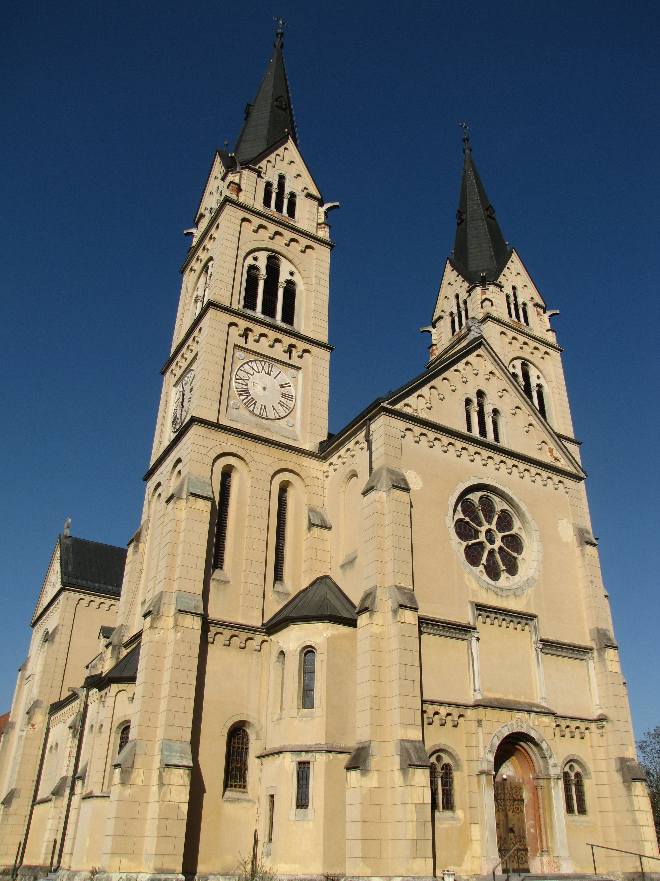 Basilica of St Mary of Lourdes, Brestanica, Slovenia